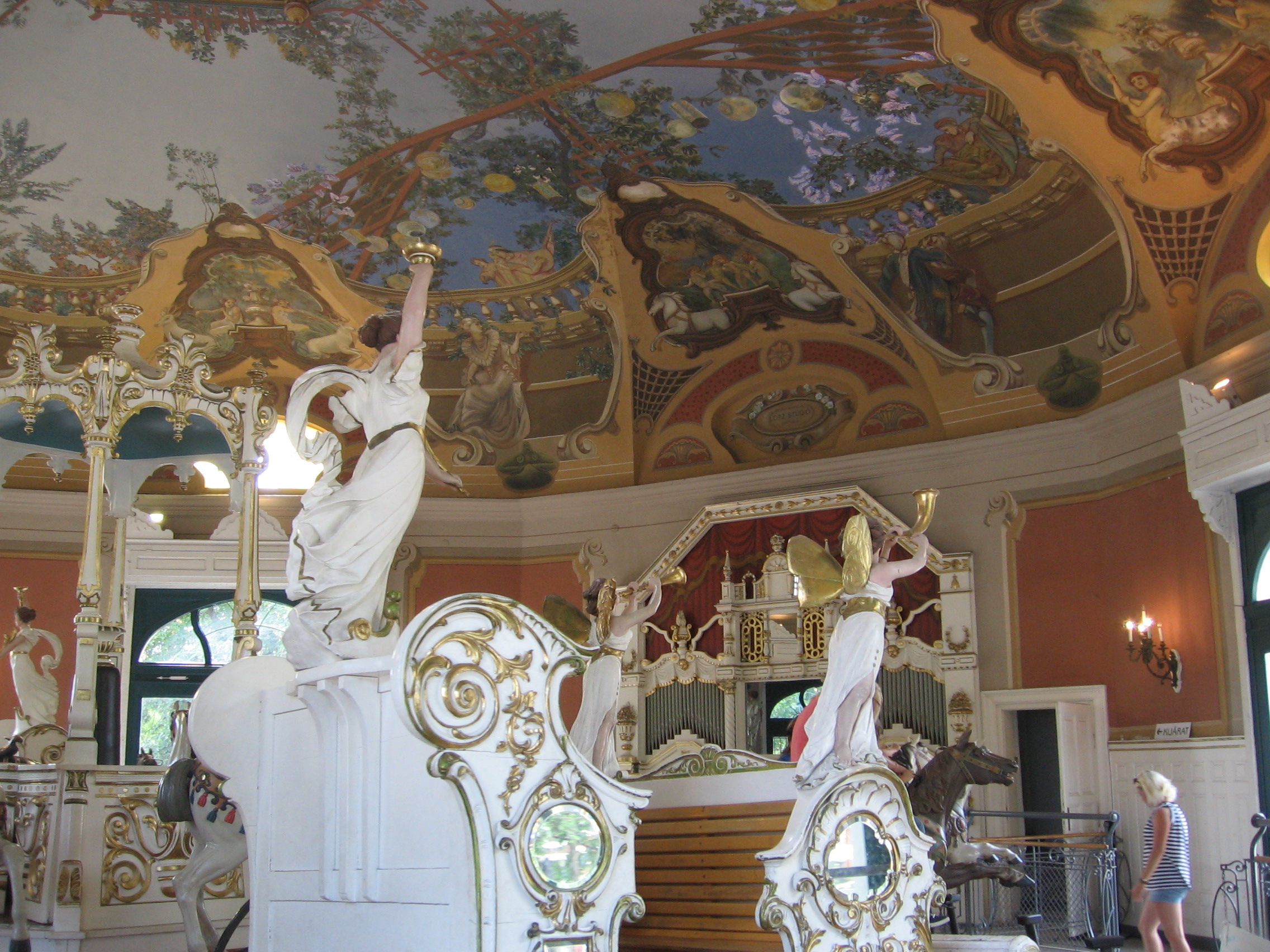 Carousel from 1906 in Budapest Holnemvolt park